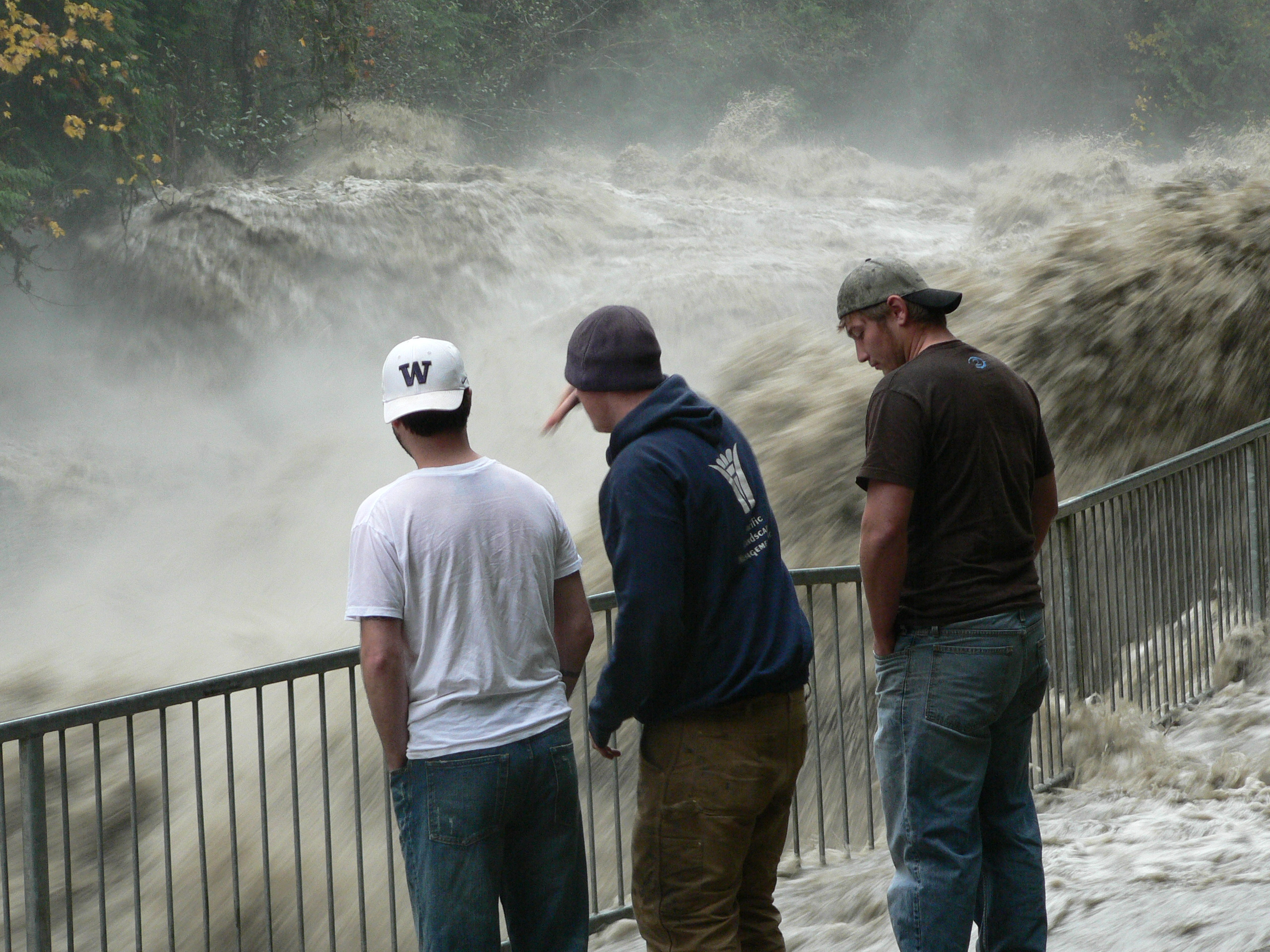 Stillaguamish River (South Fork) flood at Granite Falls, 9 feet above flood stage